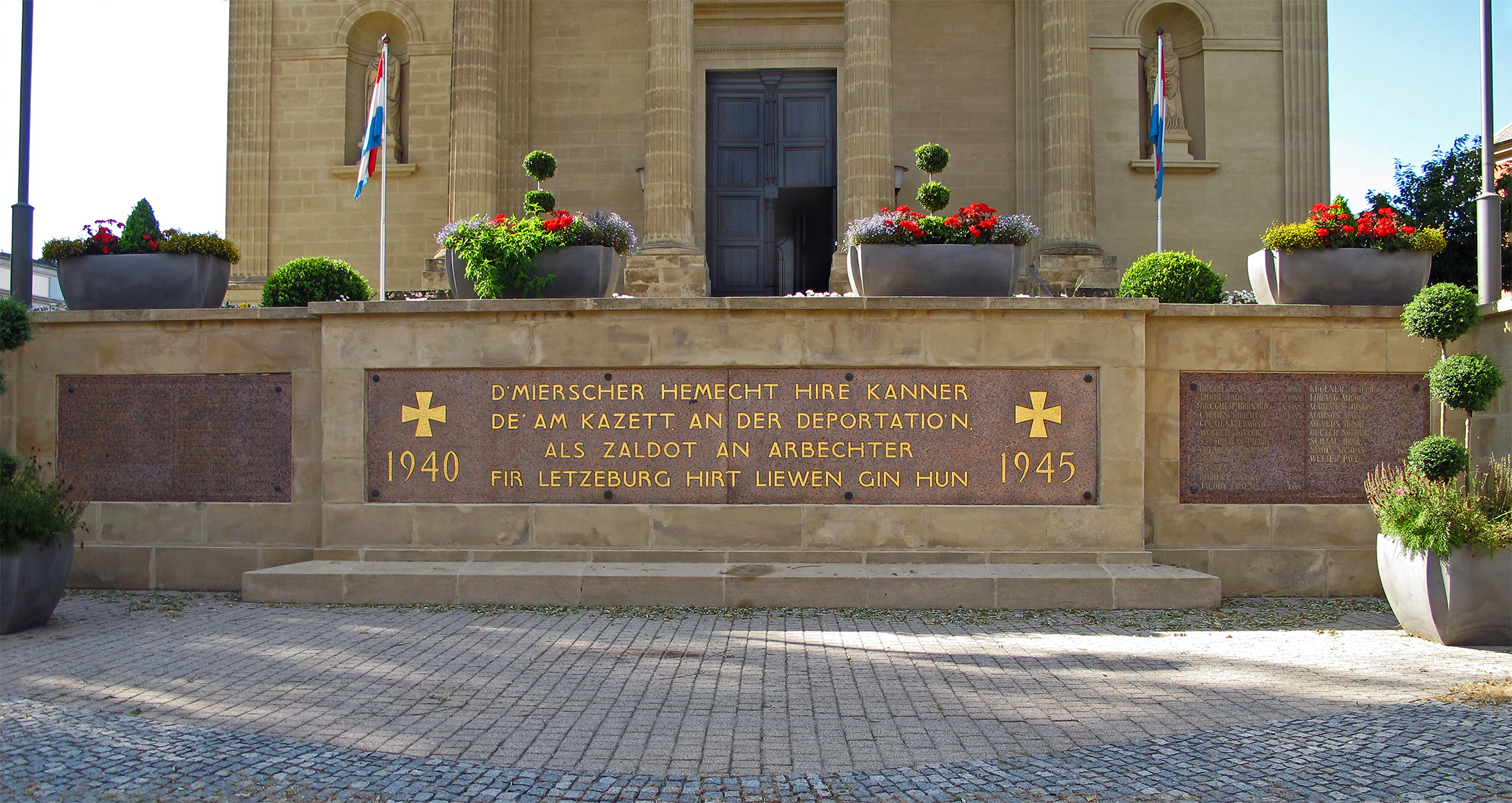 War memorial WWII, Monument aux Morts, Mersch, Luxembourg